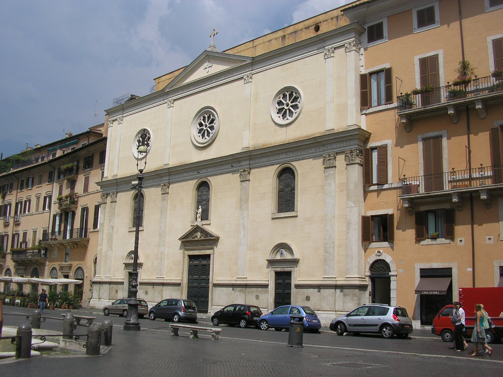 piazza Navona: San Giacomo degli Spagnoli o Nostra signora del sacro cuore and Edificio di proprietà degli Stabilimenti Spagnoli (left)